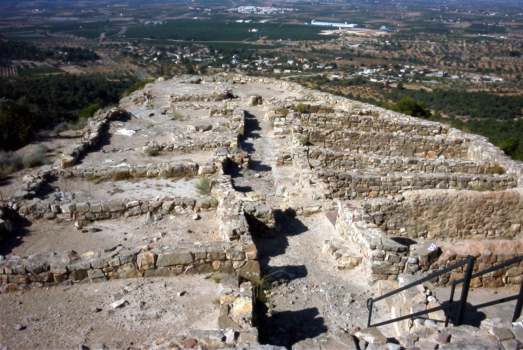 Olocau, El Puntal dels Llops, a 4th century BC Iberian settlement. General view from north-east.